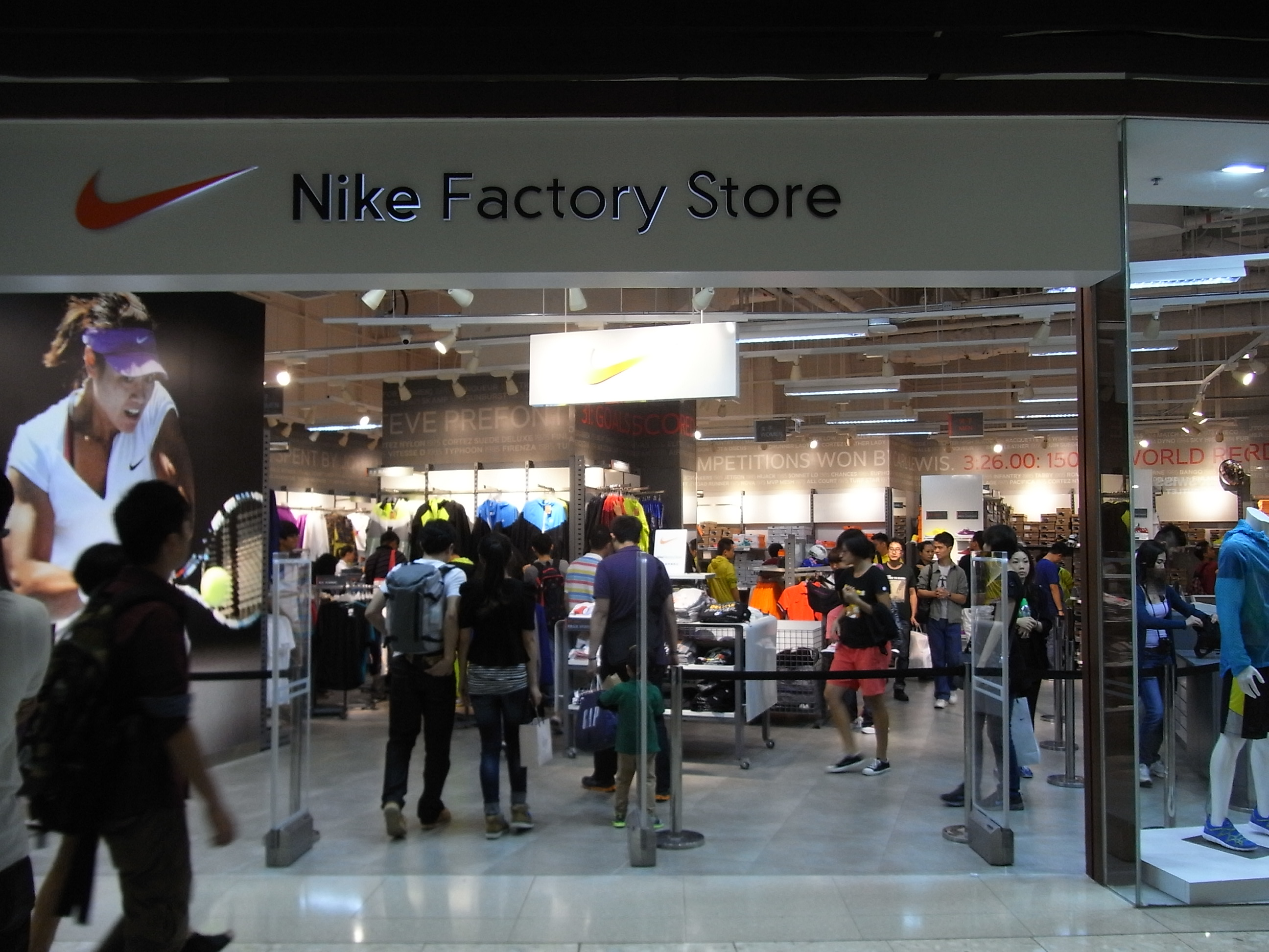 新界大嶼山東涌達東路20號東薈城, CityGate, Tung Chung, Islands District, Hong Kong